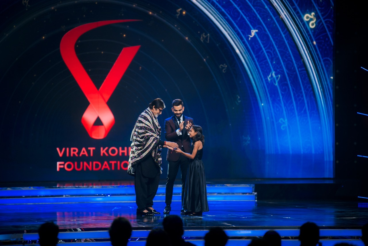 Pooja bishnoi virat kohli foundation programme